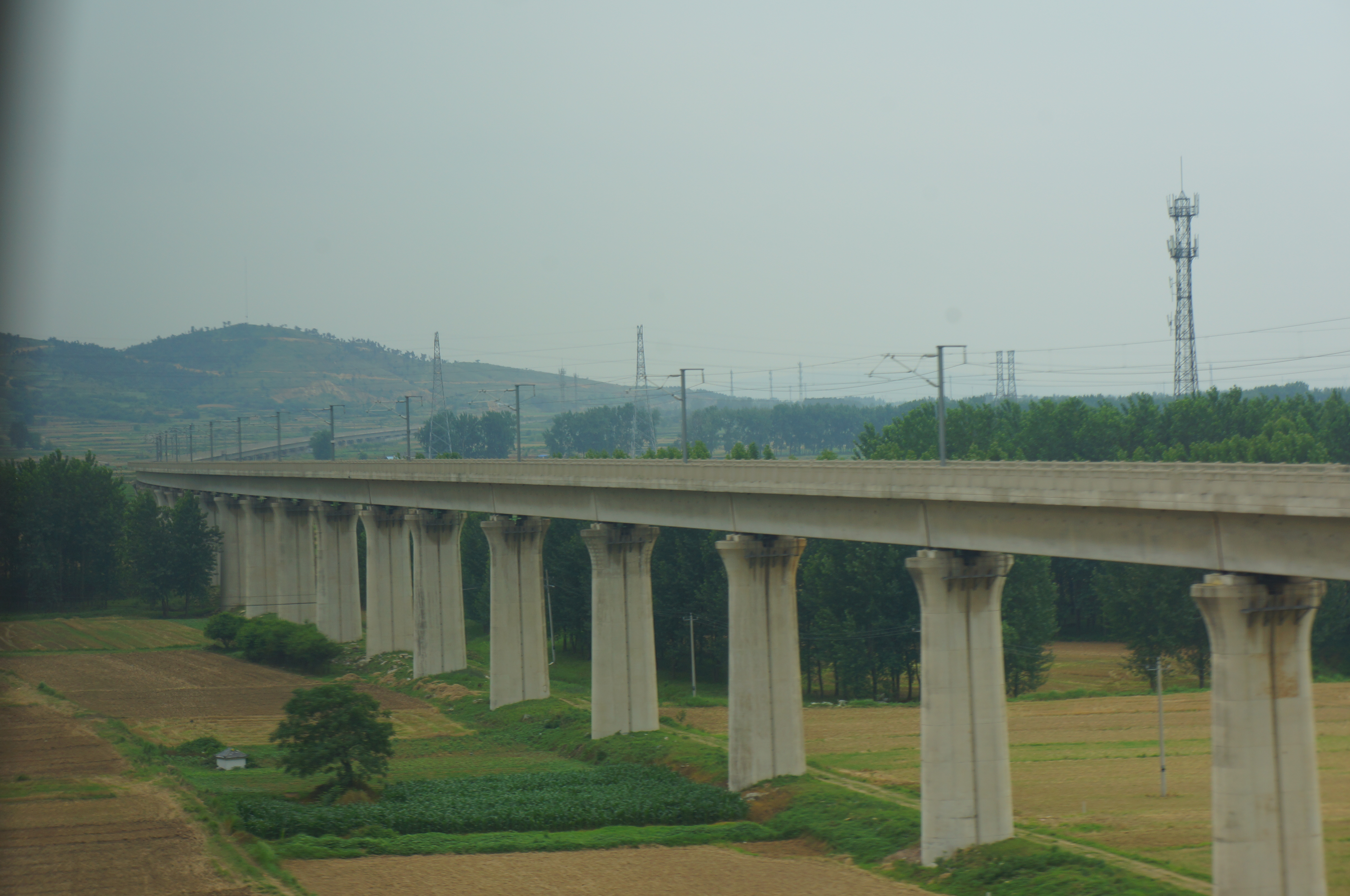 201606 Bengbu–Hefei HSR Bengbu Connector